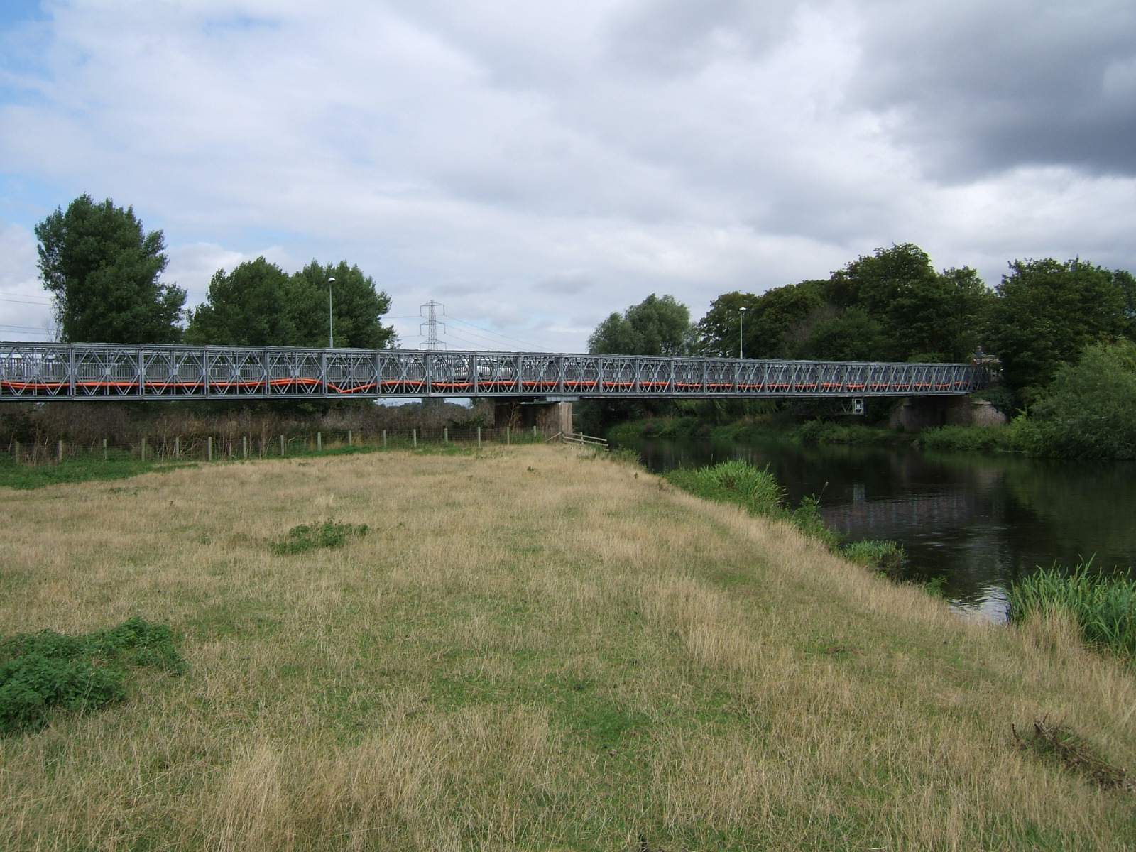 Mabey Bailey bridge across Walton on Trent flood plain